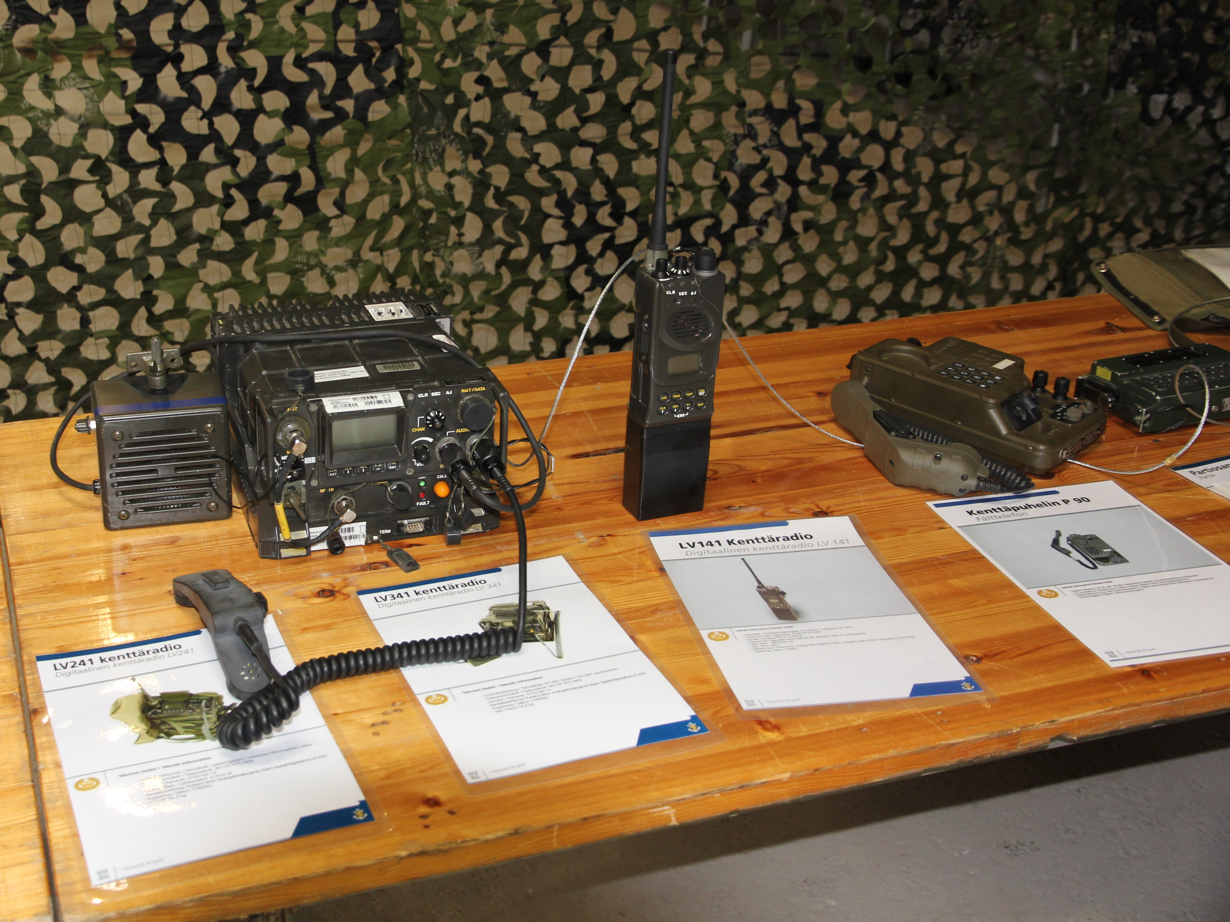 Finnish army LV 341 field radio (left) LV 141 field radio (center) and P 90 field telephone (right) on display during Finnish Defence Forces 2013 Flag day in Ekenäs harbour.